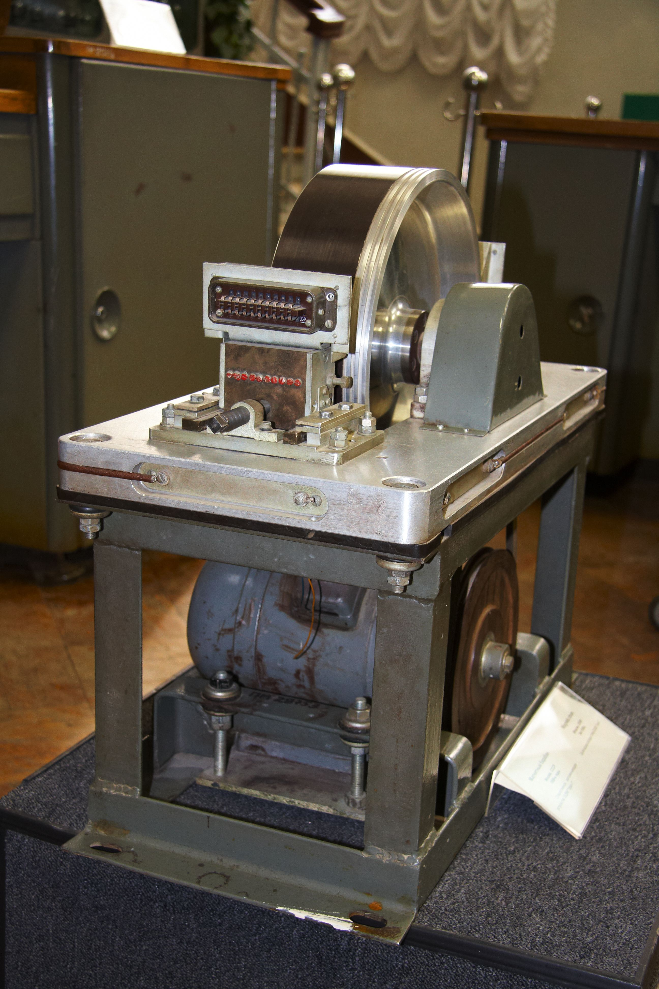 Ural-1 Memory unit